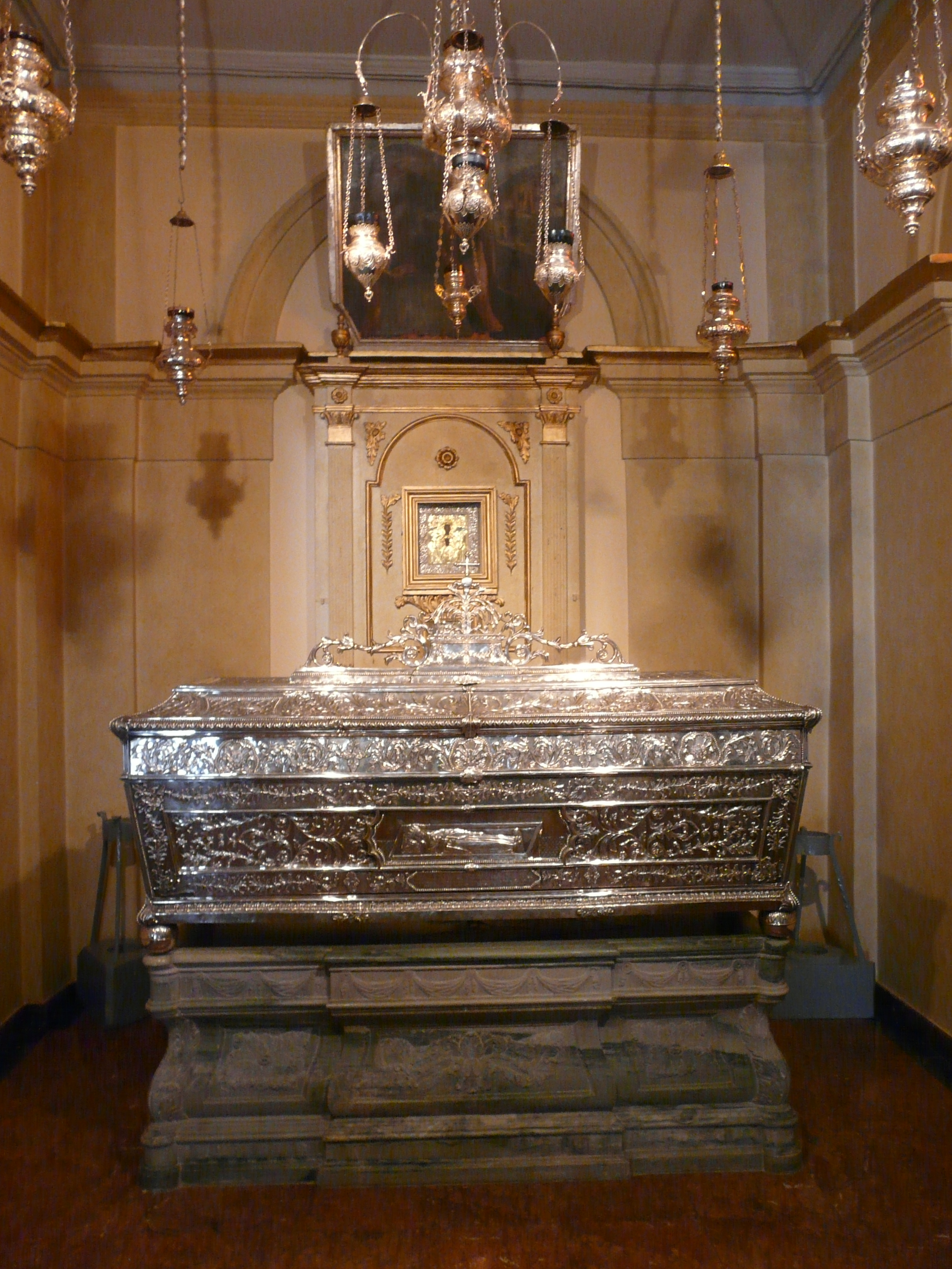 Corfu town.Corfu, Greece.